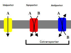 image from wikimedia commons with added label for cotransporters